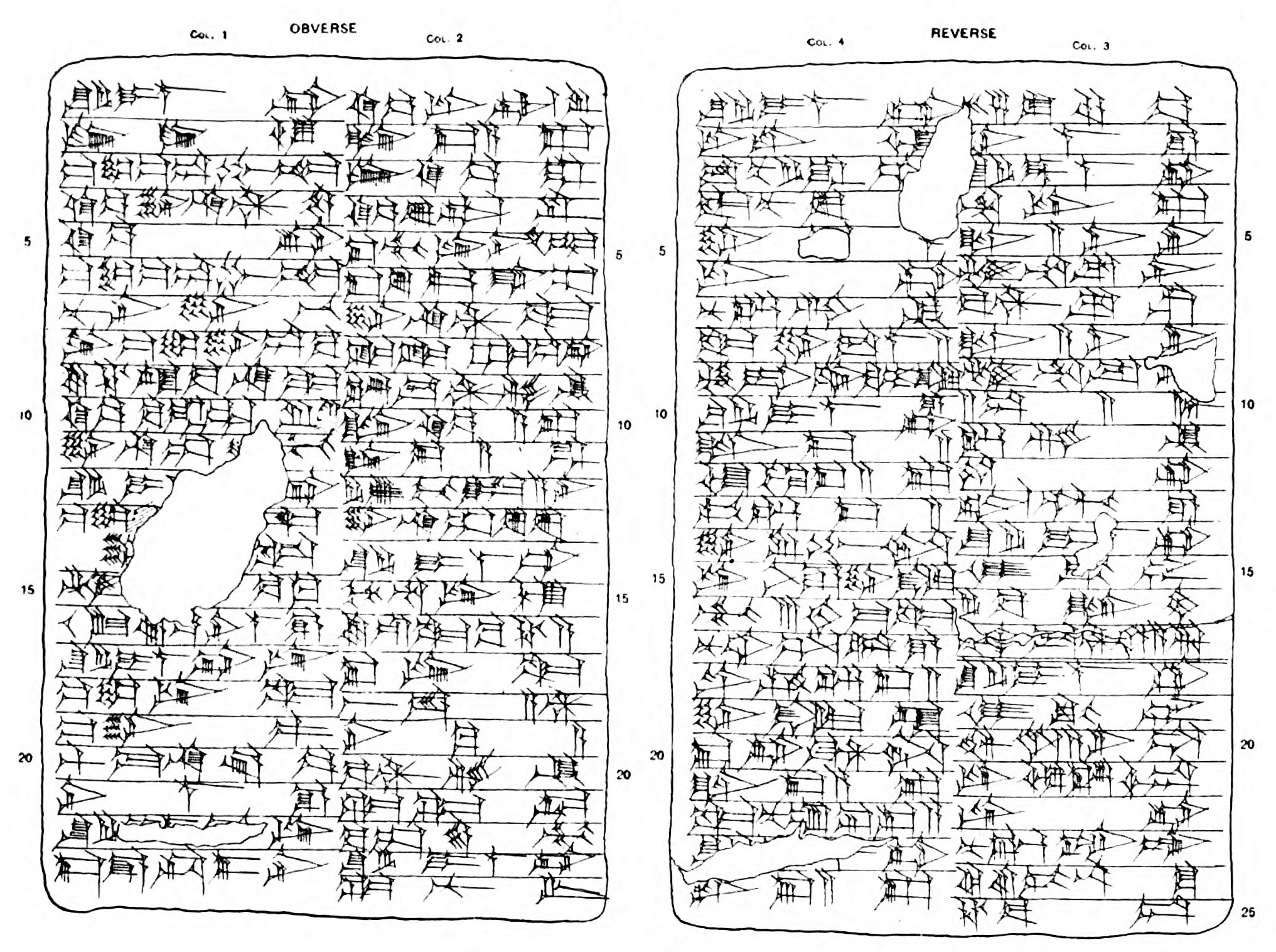 Code of Lipit-Ishtar From Henry Frederick Lutz, Selected Sumerian and Babylonian Texts, Philadelphia, 1919 (PBS 1/2) Plate CVIII, no 101 (tablet D)